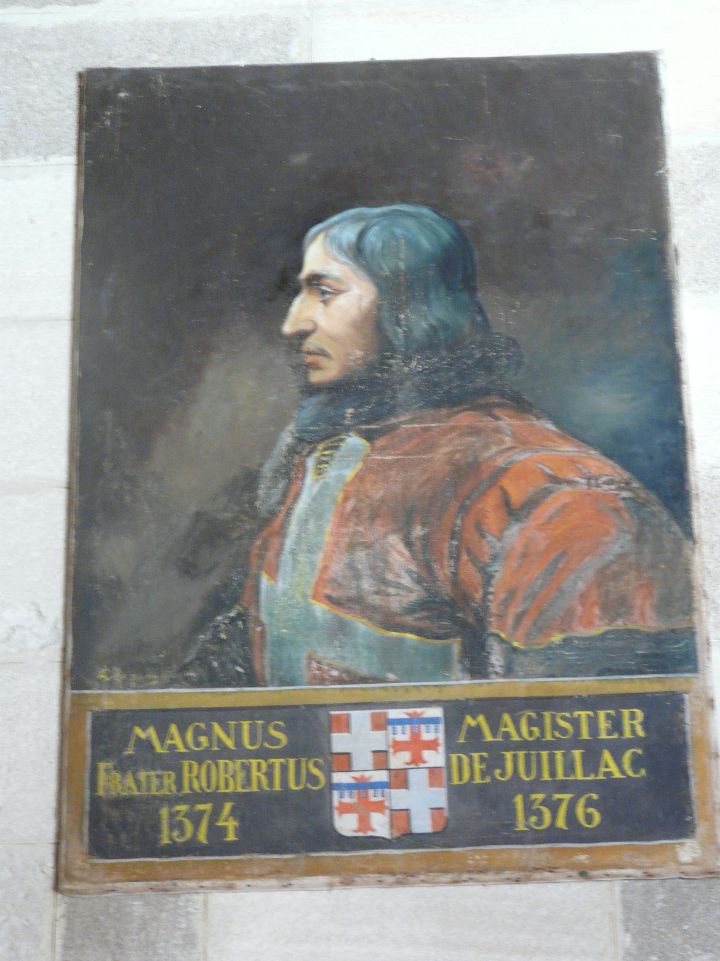 Palace of the Grand Master of the Knights of Rhodes